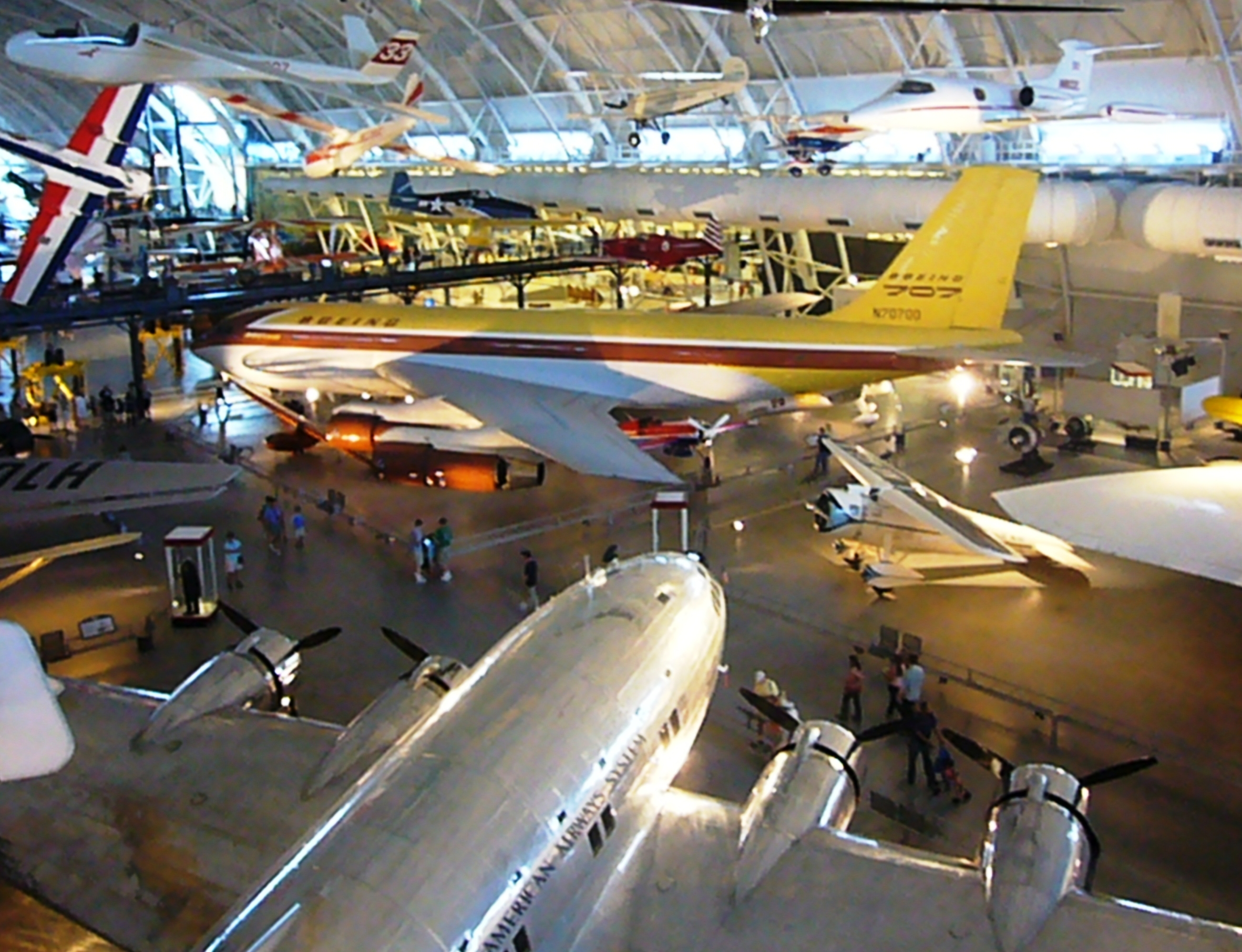 Boeing 367-80 or Dash 80